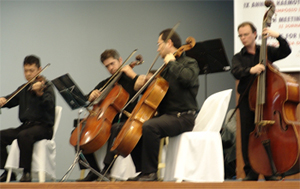 Cellistas da Camerata Brasiliana - This is not copyright violation since I took this picture myself and I work for this orchestra. All those people in the picture authorized me to publish it. Is there any other reason for deleting it??